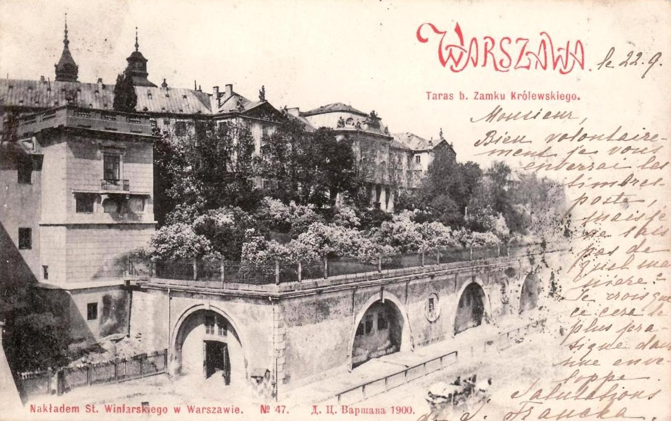 Warsaw, the Royal Castle, 1900